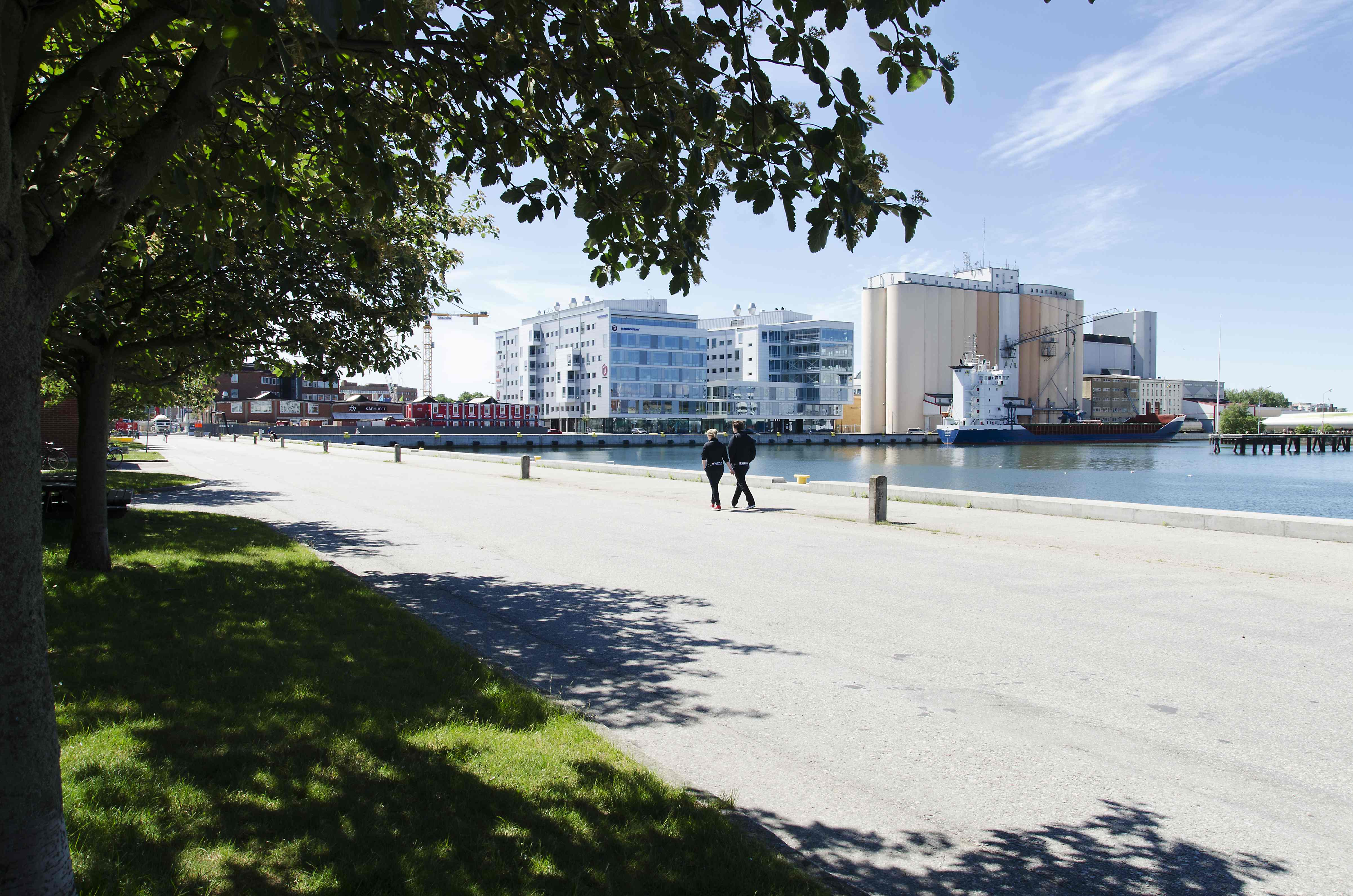 Outside if the Student Centre, Malmö University